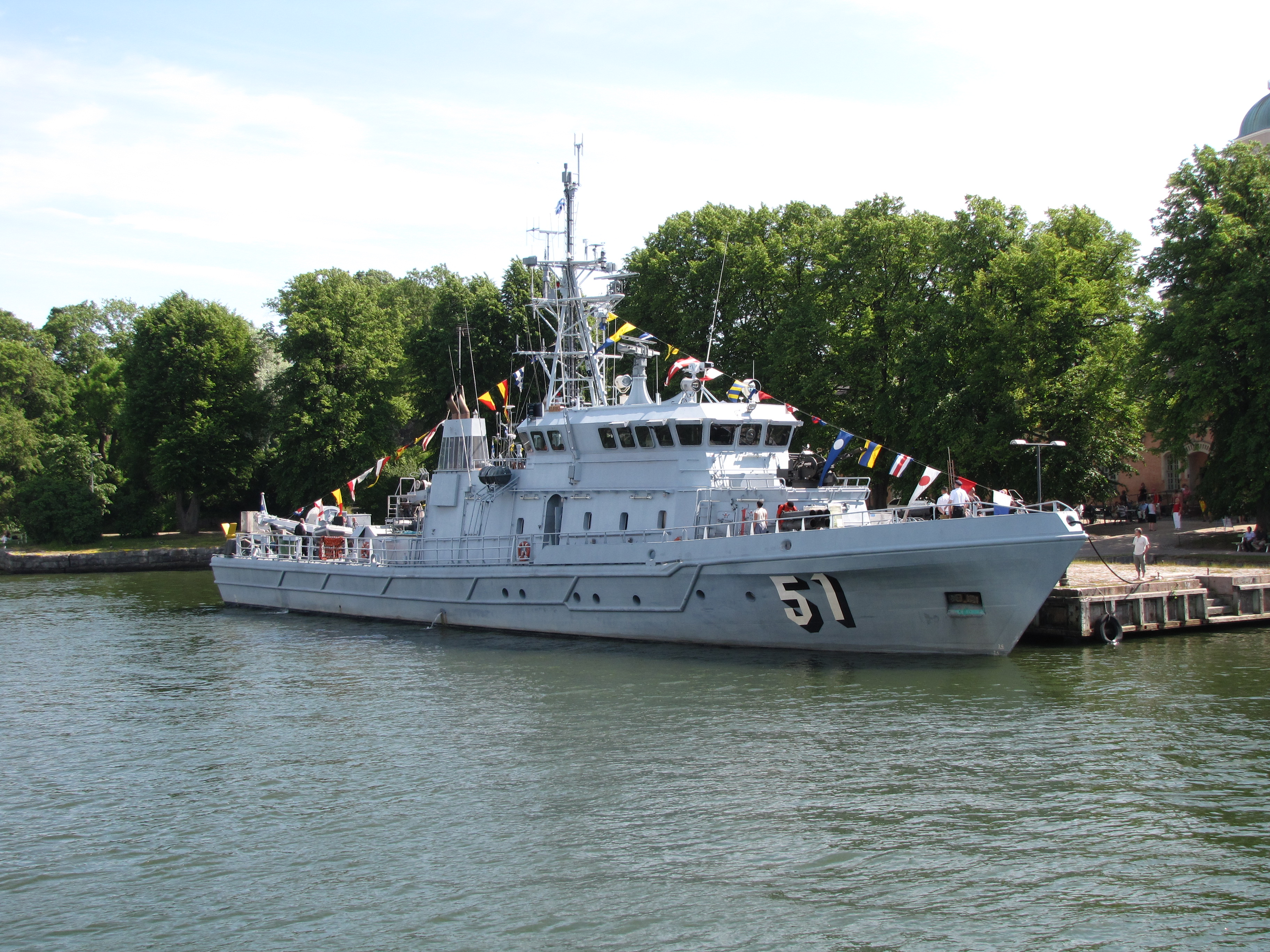 Finnish patrol craft Kurki (51) in Suomenlinna, decorated for the Finnish Navy anniversary celebrations.